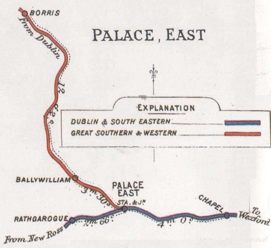 Palace East DSER Rail Connections